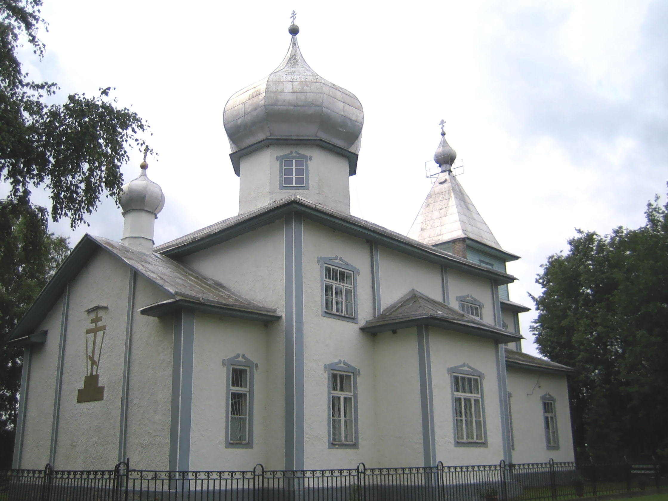 Old Believers Church in Mustvee, Estonia (1927–1930)